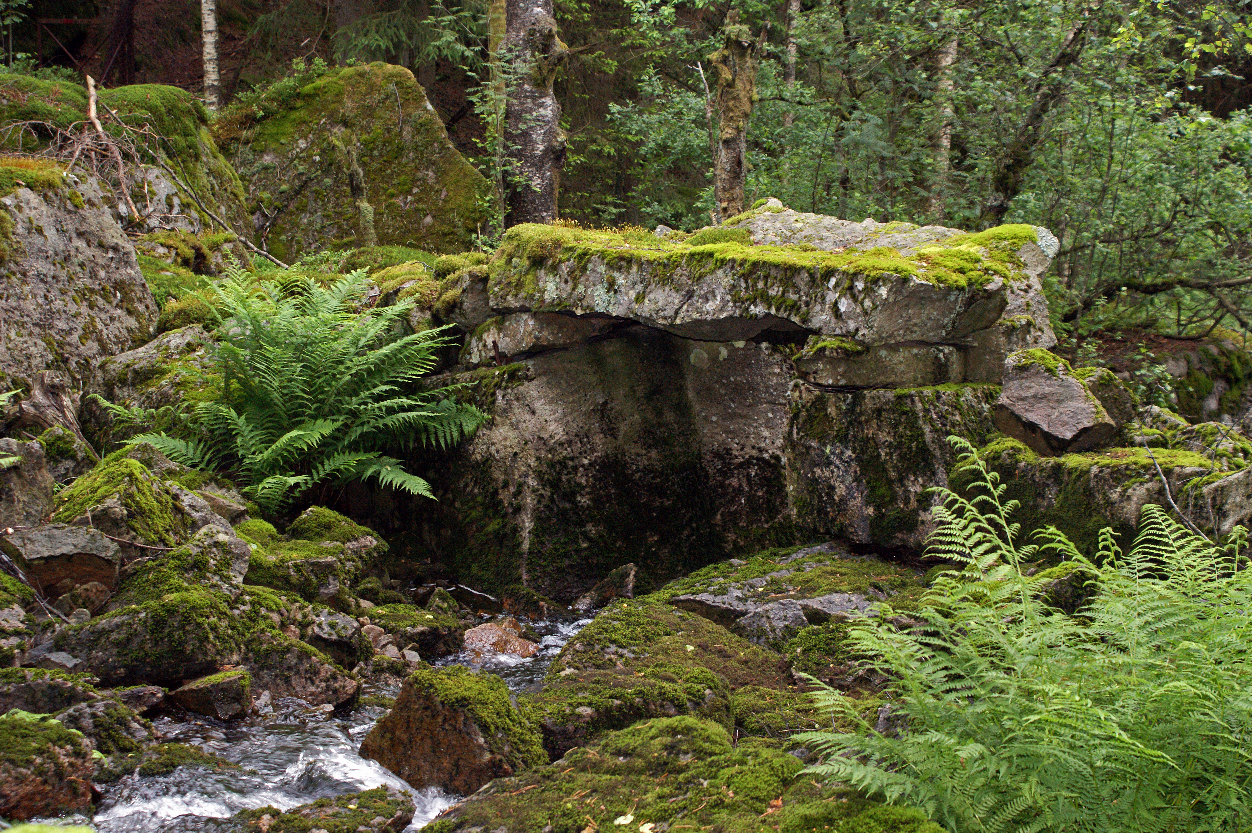 The old stone bridge, Norway